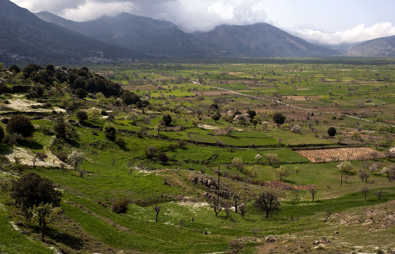 Lasithi Plateau in Lasithi prefecture, Crete